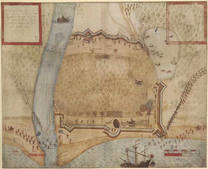 "THE xjth of Maie the Generall in the Tyger arriued at St Iohns Iland where he fortified in this manner, toke in fresh water, and buylt a Pynnes, And then departed from thence the xxiijth of the same moneth. 1585." Watercolor by John White. The temporary fort was constructed by General Ralph Lane to protect a base camp for Sir Richard Grenville's crew as they awaited the rest of his fleet, which had become separated off the coast of Portugal. The location of Mosquetal (Mosquito Bay) is uncertain; historians have identified it as both Tullaboa Bay and Guayanilla Bay.